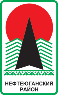 Nefteyugansk rayon (Khanty-Mansia), coat of arms